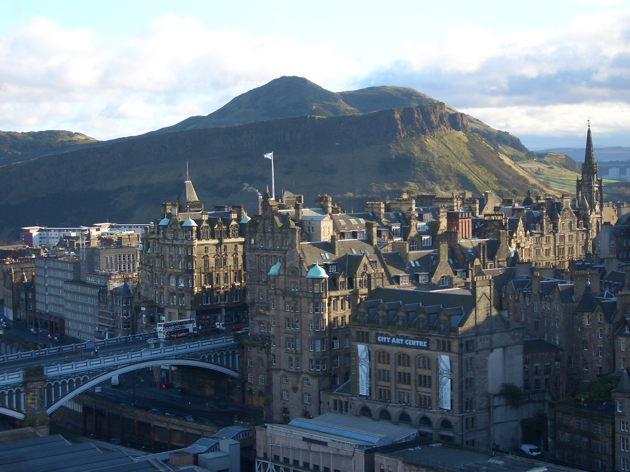 View of Edinburgh's Old Town from the Scott Monument